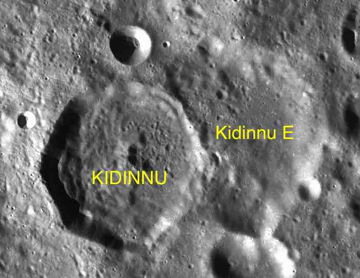 Part of the chart LAC-30 used for the presentation